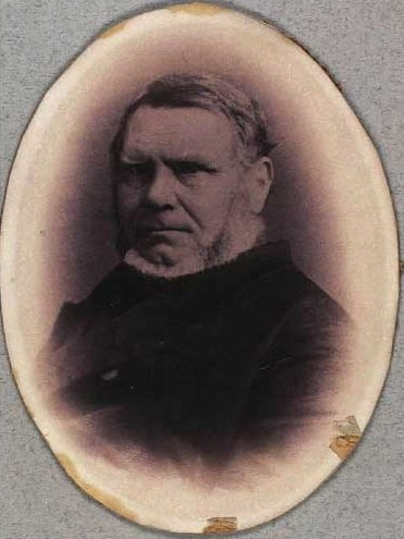 Christian Schroll (1807-1890), Danish farmer, industrialist, and politician, MP